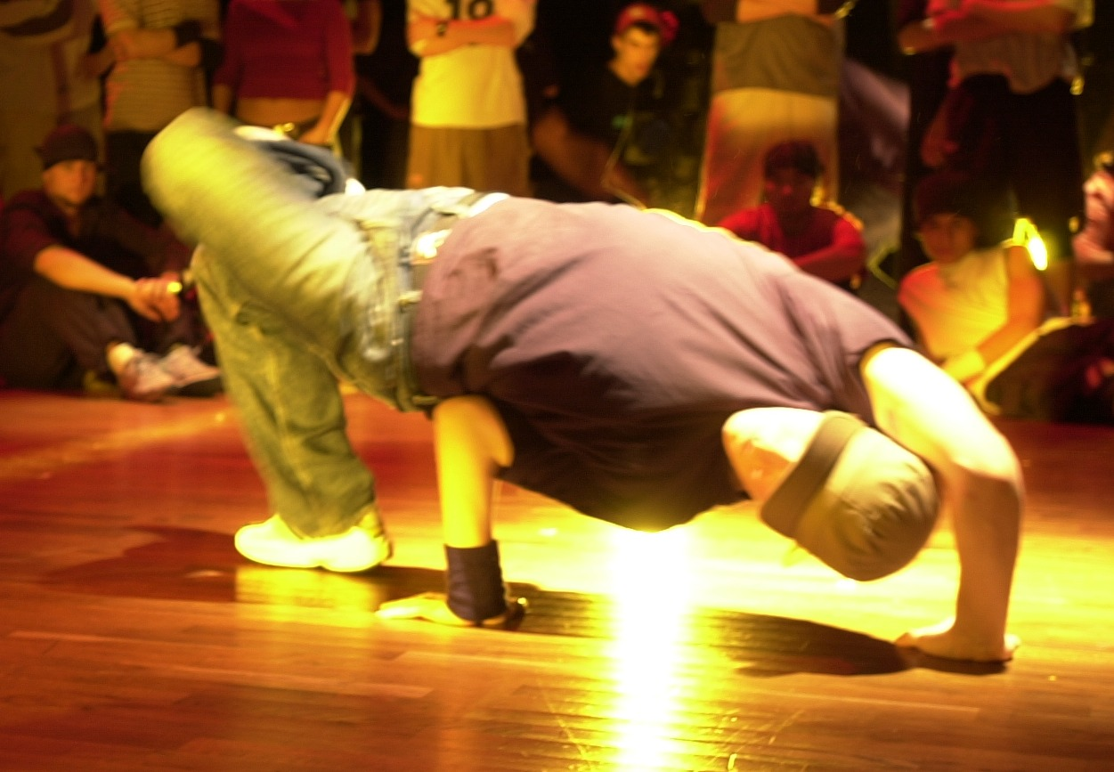 Classic freeze, Figure 4, performed by unknown in Kulturhuset, Stockholm